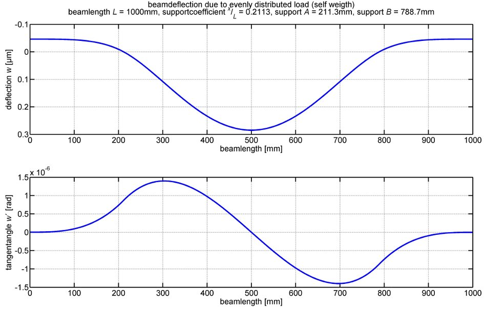 This pic shows the beamshape and the tangent angle caused by the self weight of a rather massive aluminum beam with 1m length supported at the positions 0.2113*L and L-0.2113*L